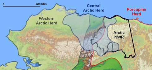 Map of the ranges of Arctic caribou herds.